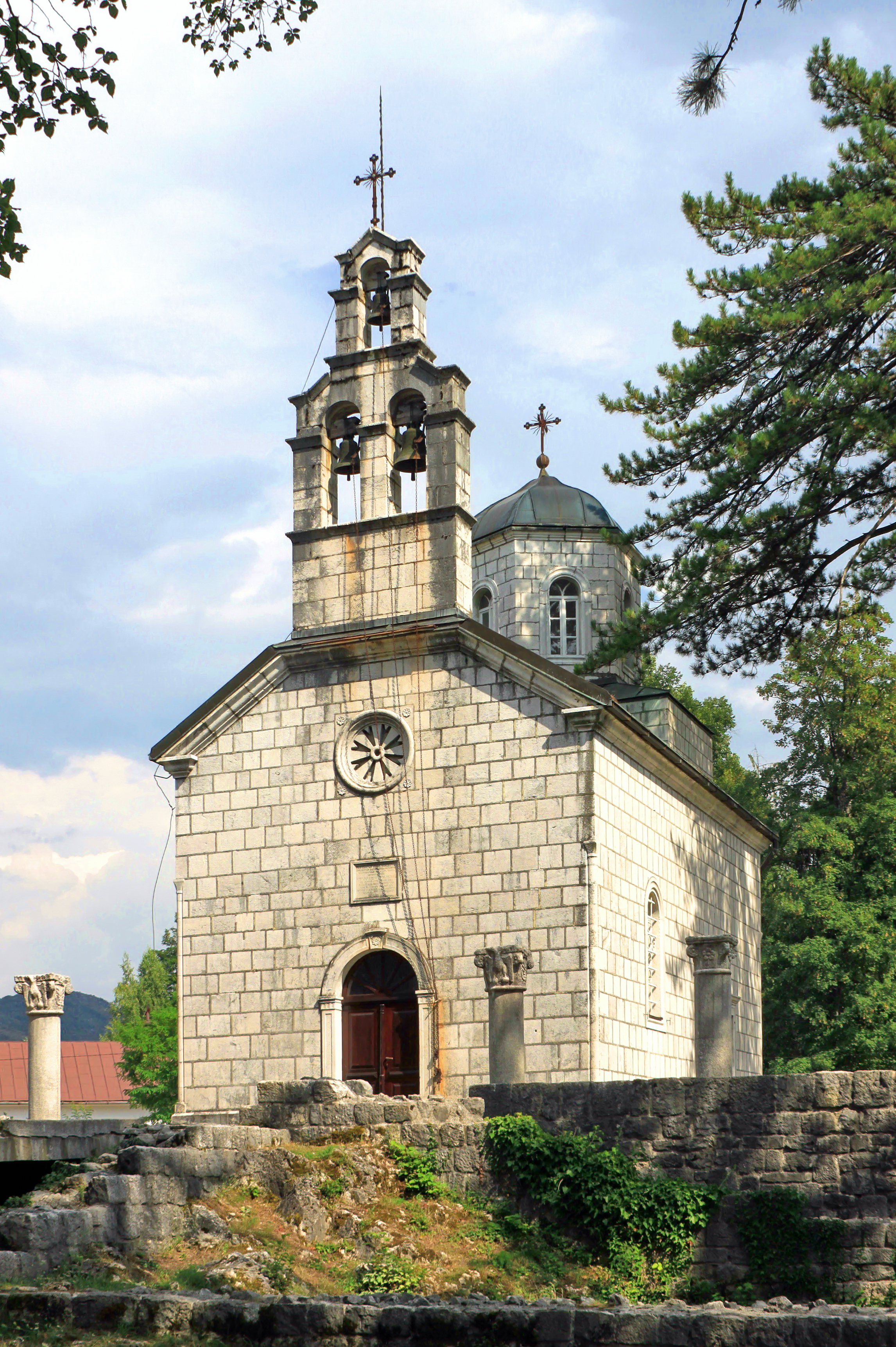 Court Church. Cetinje, Montenegro.